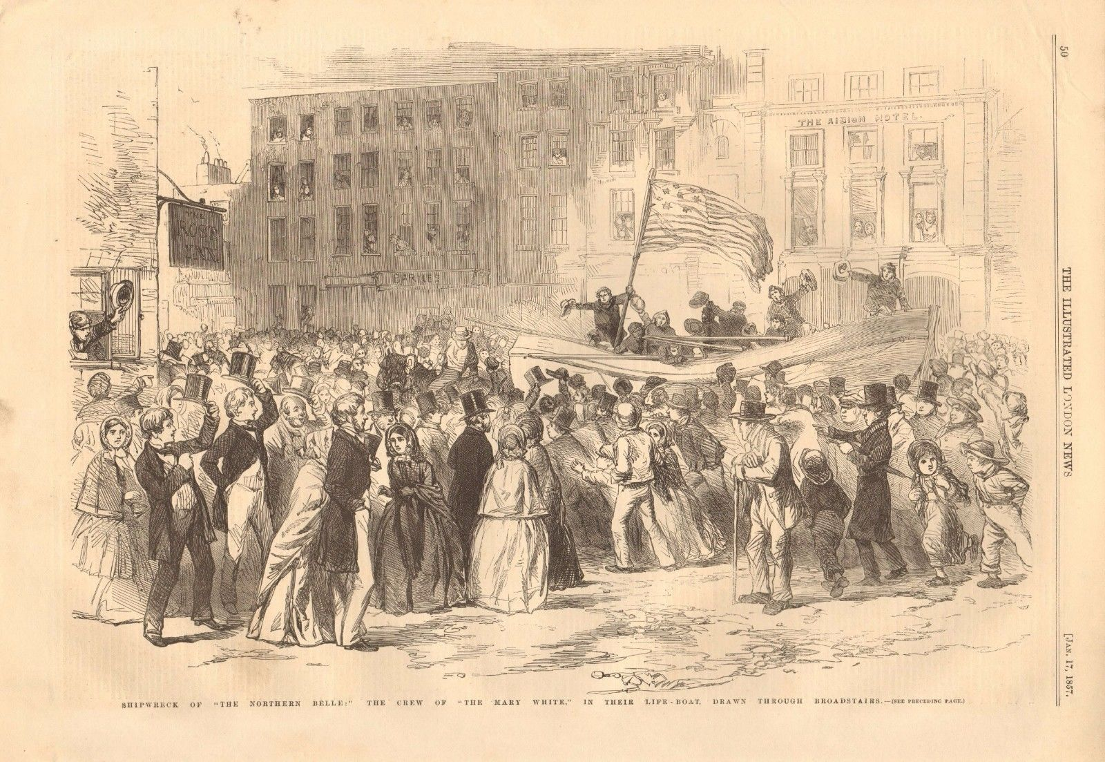 Shipwreck of the "Northern Belle" the crew of the "Mary White" in their life-boat drawn through Broadstairs, on 6 January 1857.